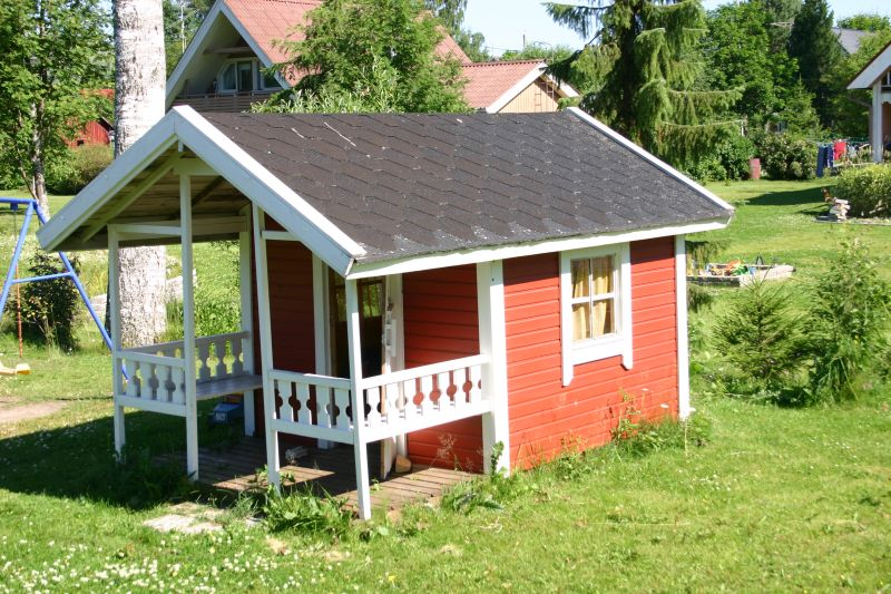 A playhouse/play cottage